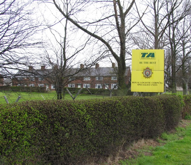 Army Housing: Large Army Barracks and housing on A52 east of Grantham.